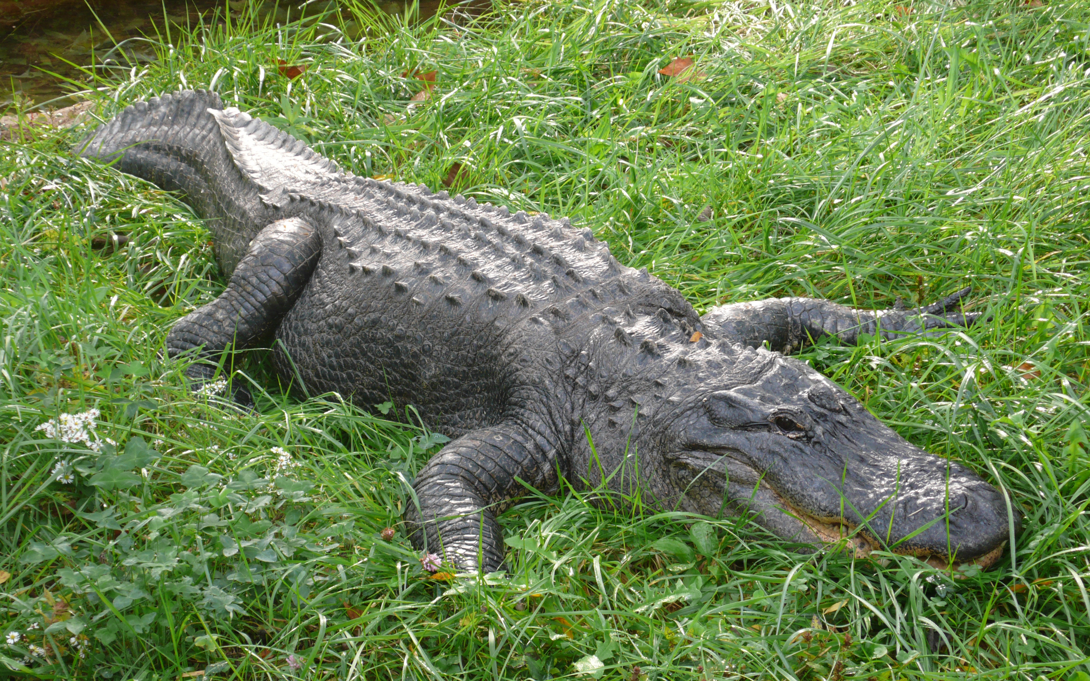 American Alligator, (Alligator mississippiensis)